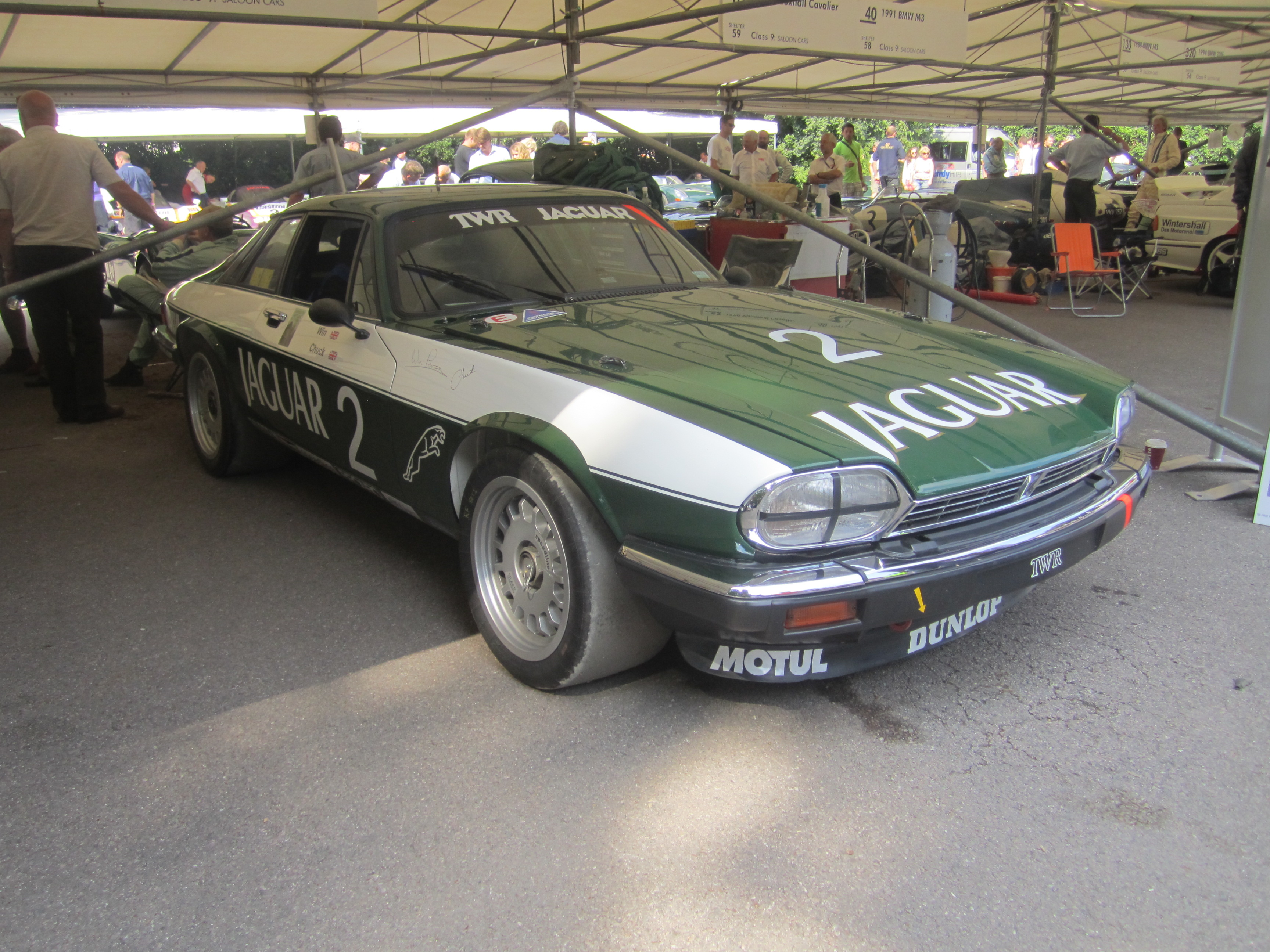 The XJS was built from 1975-96 (facelift in 1991 with bigger bumpers etc) Engine; 5.3 litre V12 Taken at the Goodwood Festival of Speed England 2011-Hill Climb Contender